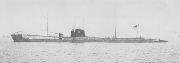 Japanese submarine Maru-5, ex-UC99.